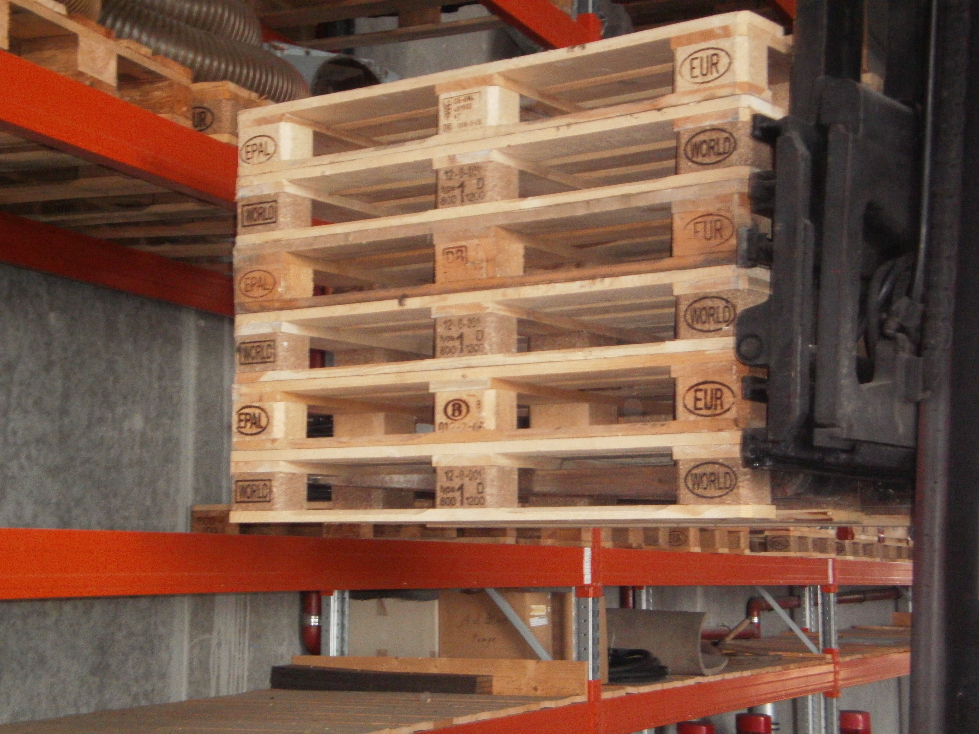 pallets in stock